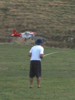 Rc pilot bringing his aircraft in to land